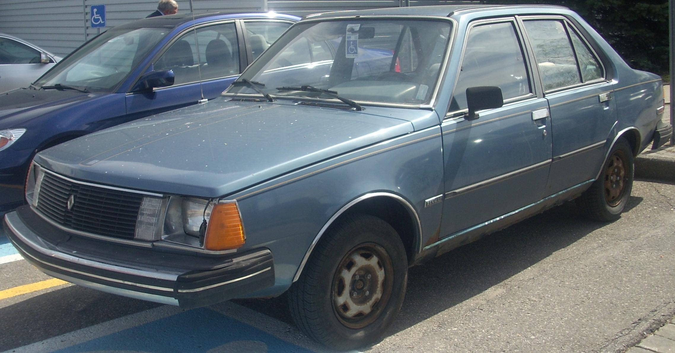 1981-1982 Renault 18 photographed in Pointe Claire, Quebec, Canada.